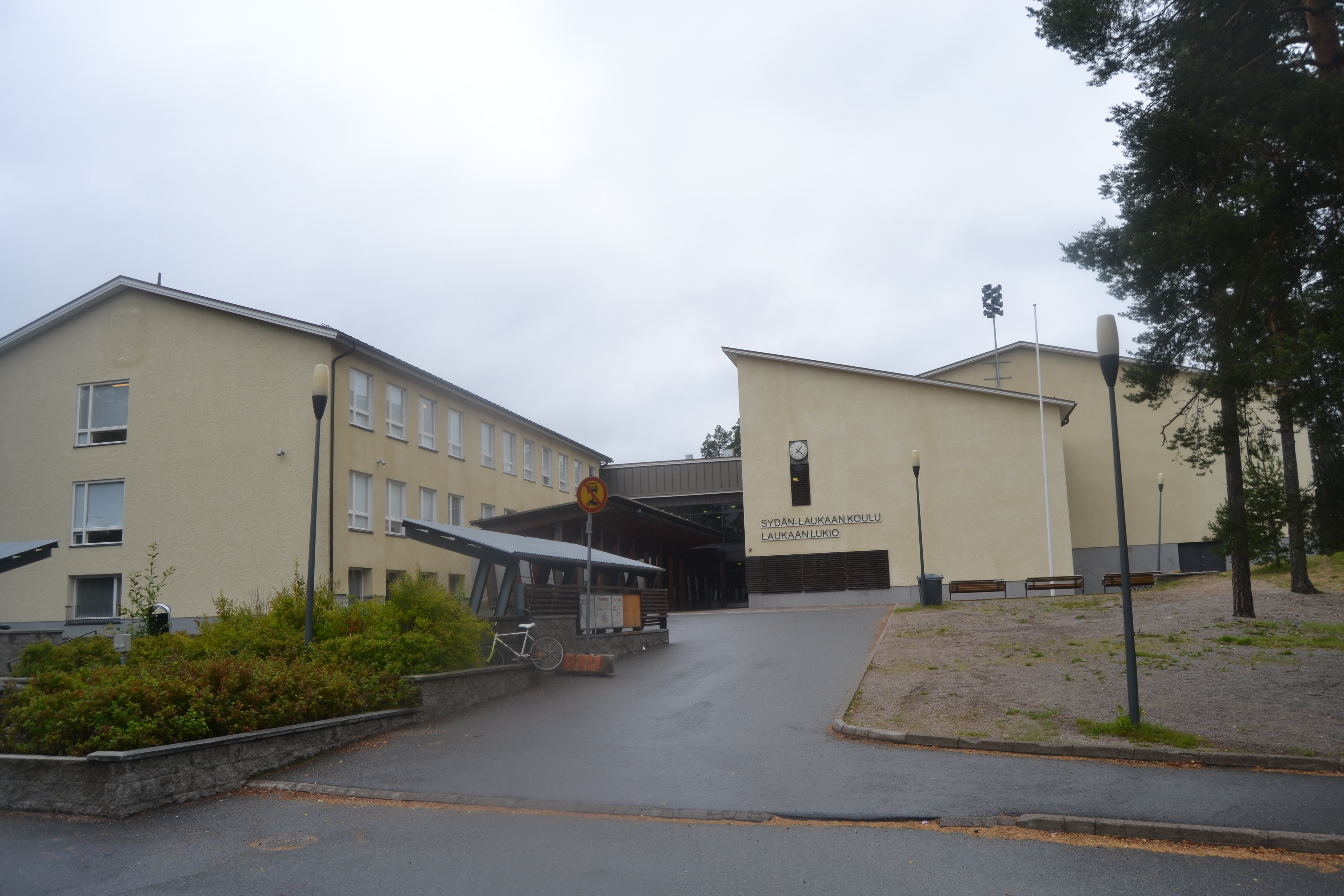 Laukaa secondary school in Laukaa, Finland